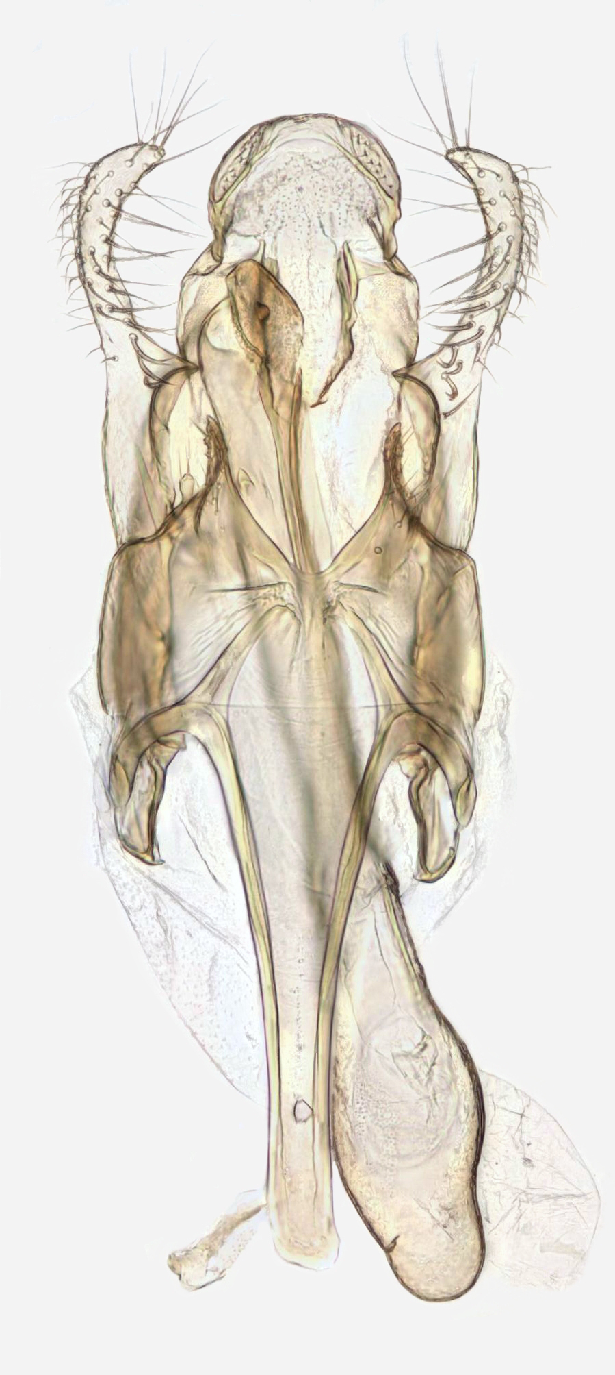 Tuta absoluta, Wolverhampton, England, April 2016